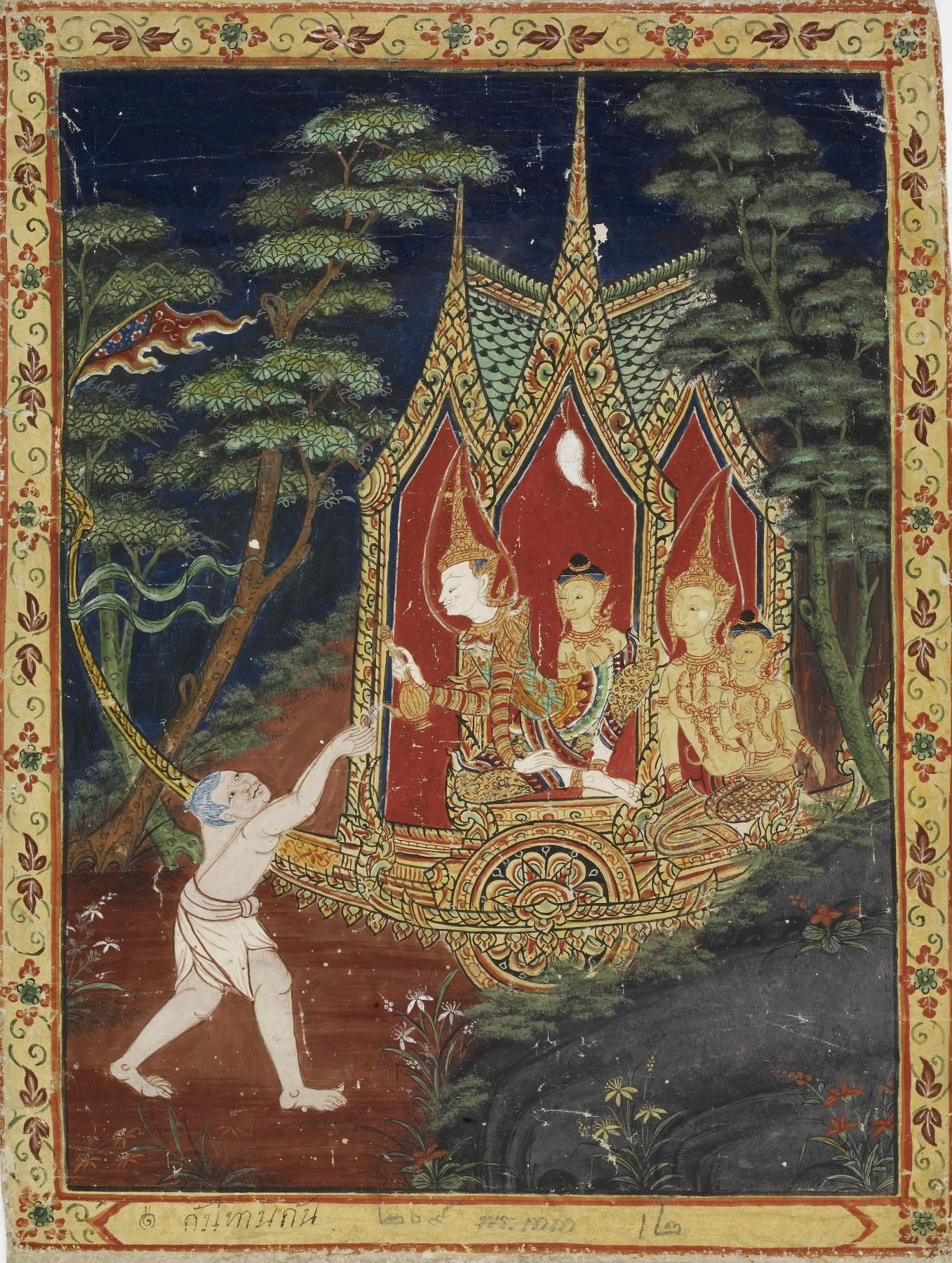 After his banishment from the kingdom, Vessantara is accompanied into the forest by his wife, Maddi, and their two children. Traveling in an ornamented chariot, they meet some brahmins who ask them for the horses and chariot. After giving the horses and chariot away, the family proceeds on foot. In this scene, Vessantara is pouring water into the hands of a brahmin as he gives the chariot away.